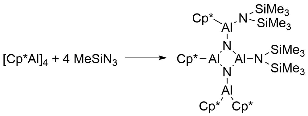 (Pentamethylcyclopentadienyl)aluminium(I) reaction with MeSiN3